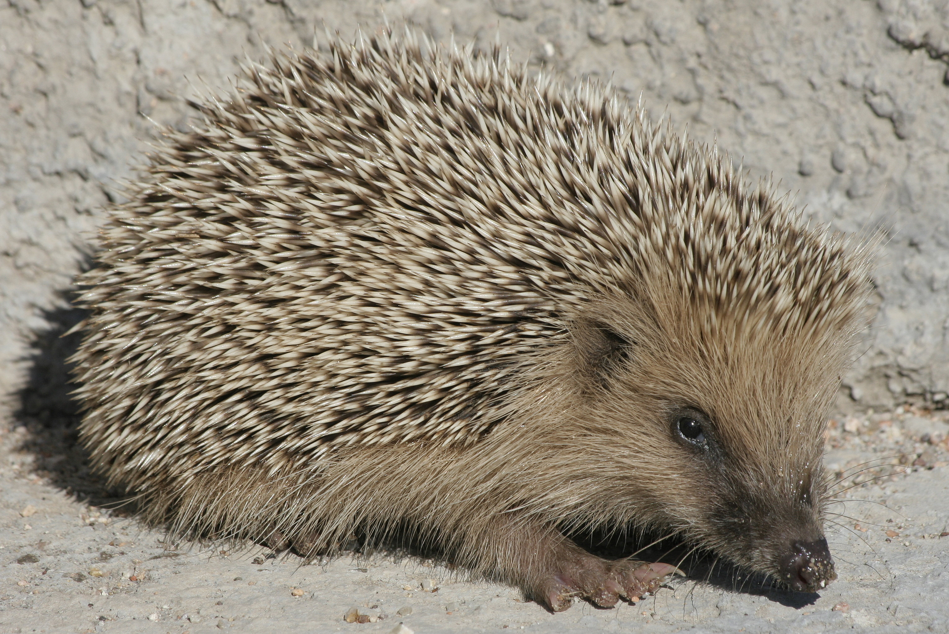 Young Erinaceus europaeus